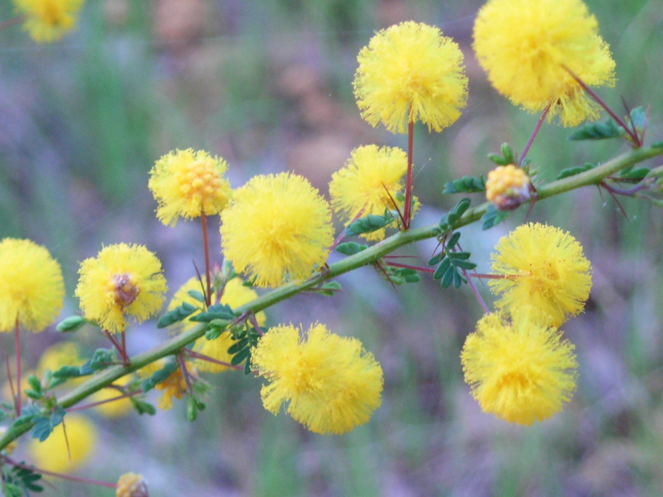 Acacia pulchella Glen Forrest, Western Australia Spring 2008